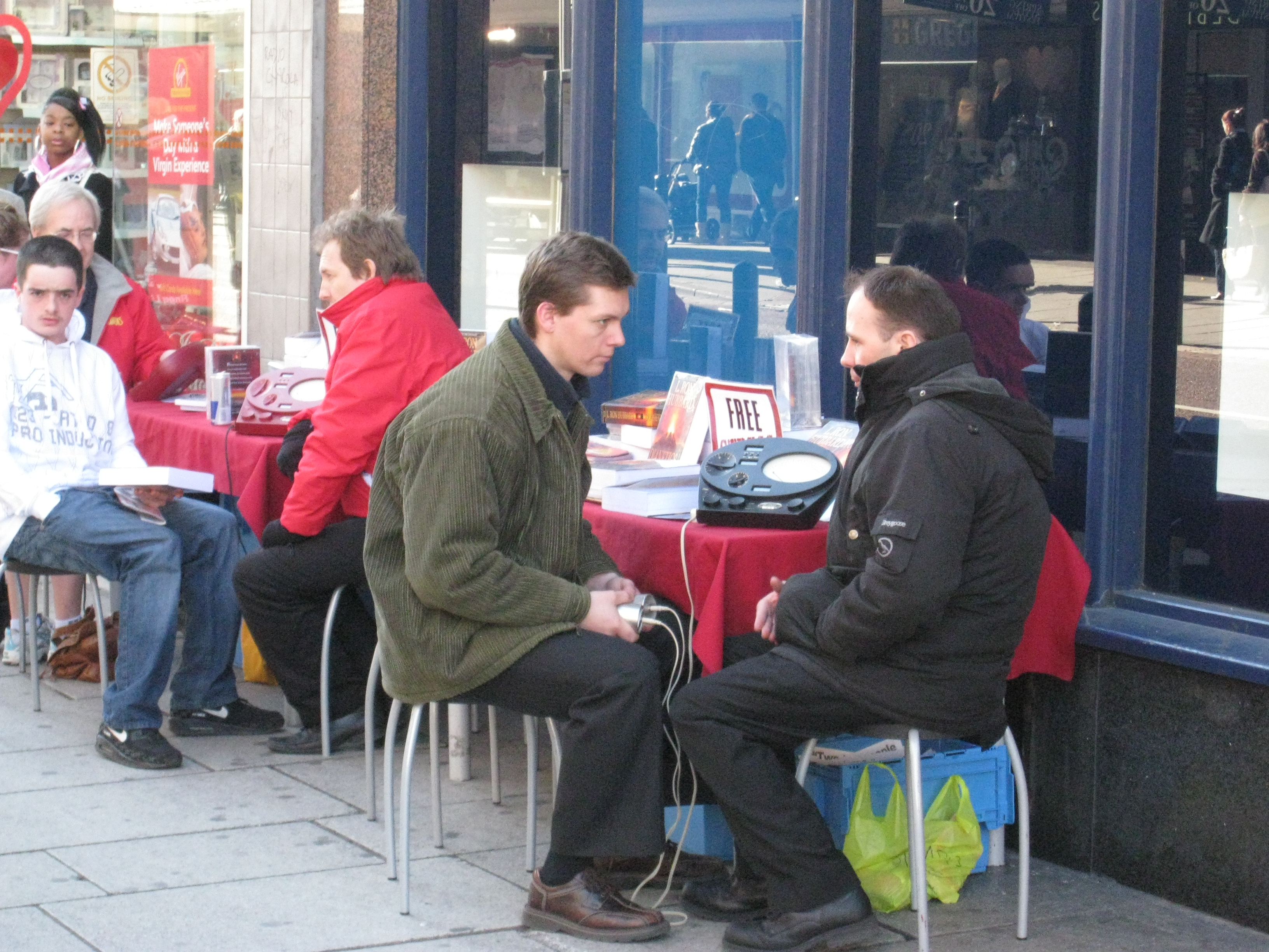 Scientology in the Junction